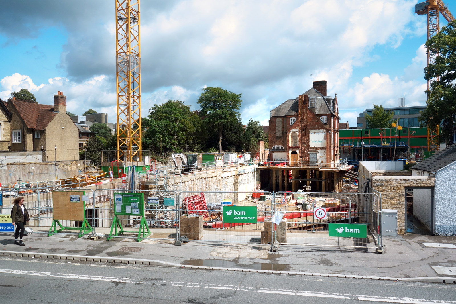 Building Site, Woodstock Road, Oxford